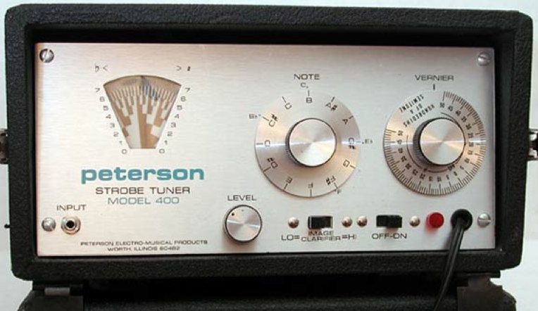 Peterson Electro-Musical Products Model 400 Strobe Tuner